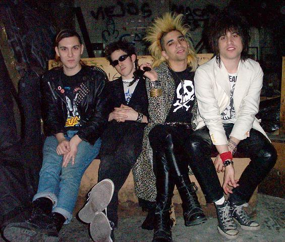 the band Vedette SS